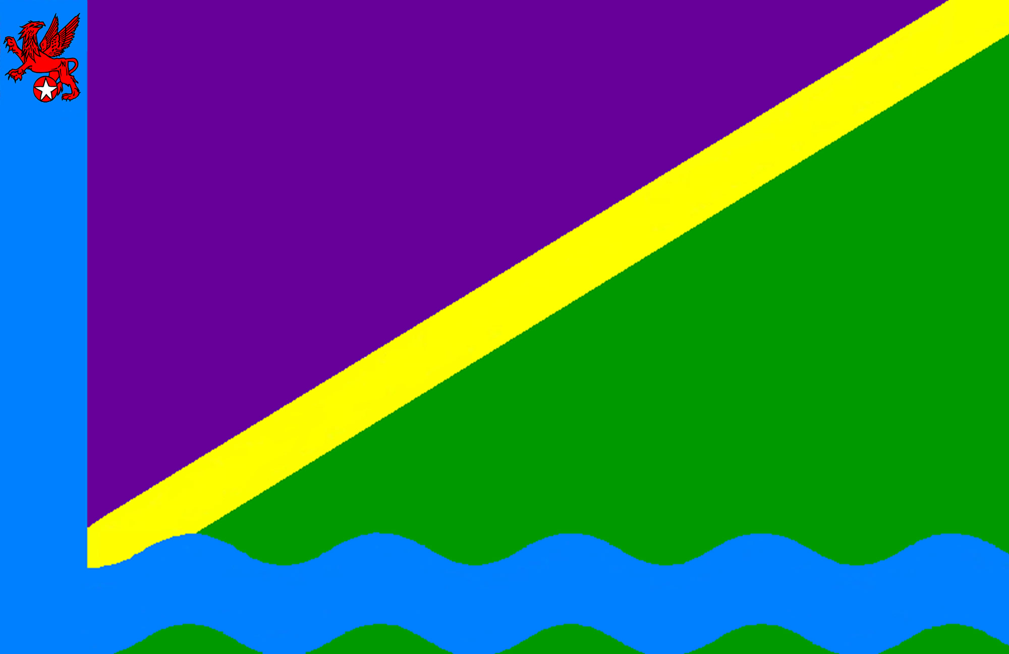 flag of De Hoeve, Weststellingwerf, Friesland, Netherlands